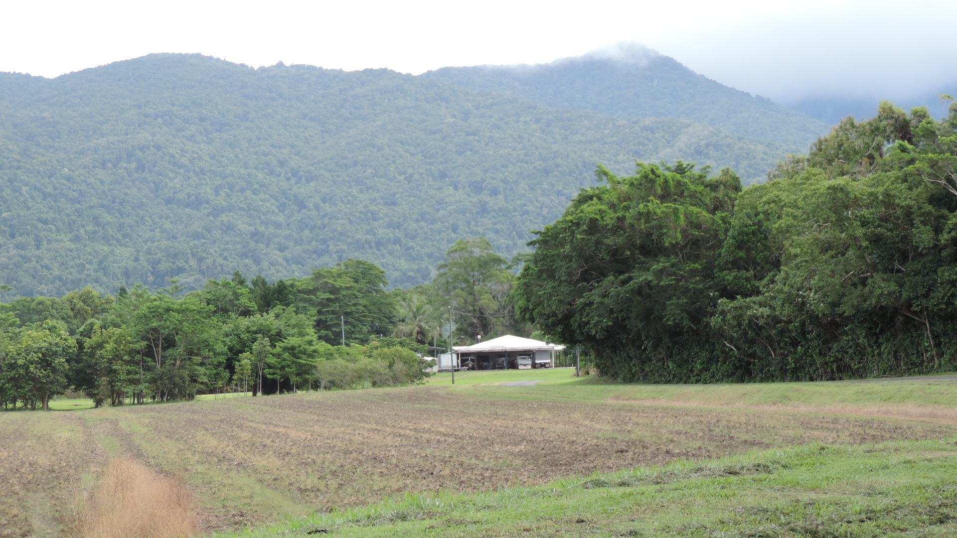 Farm with Bellenden Ker Range in the background, Deeral, 2018